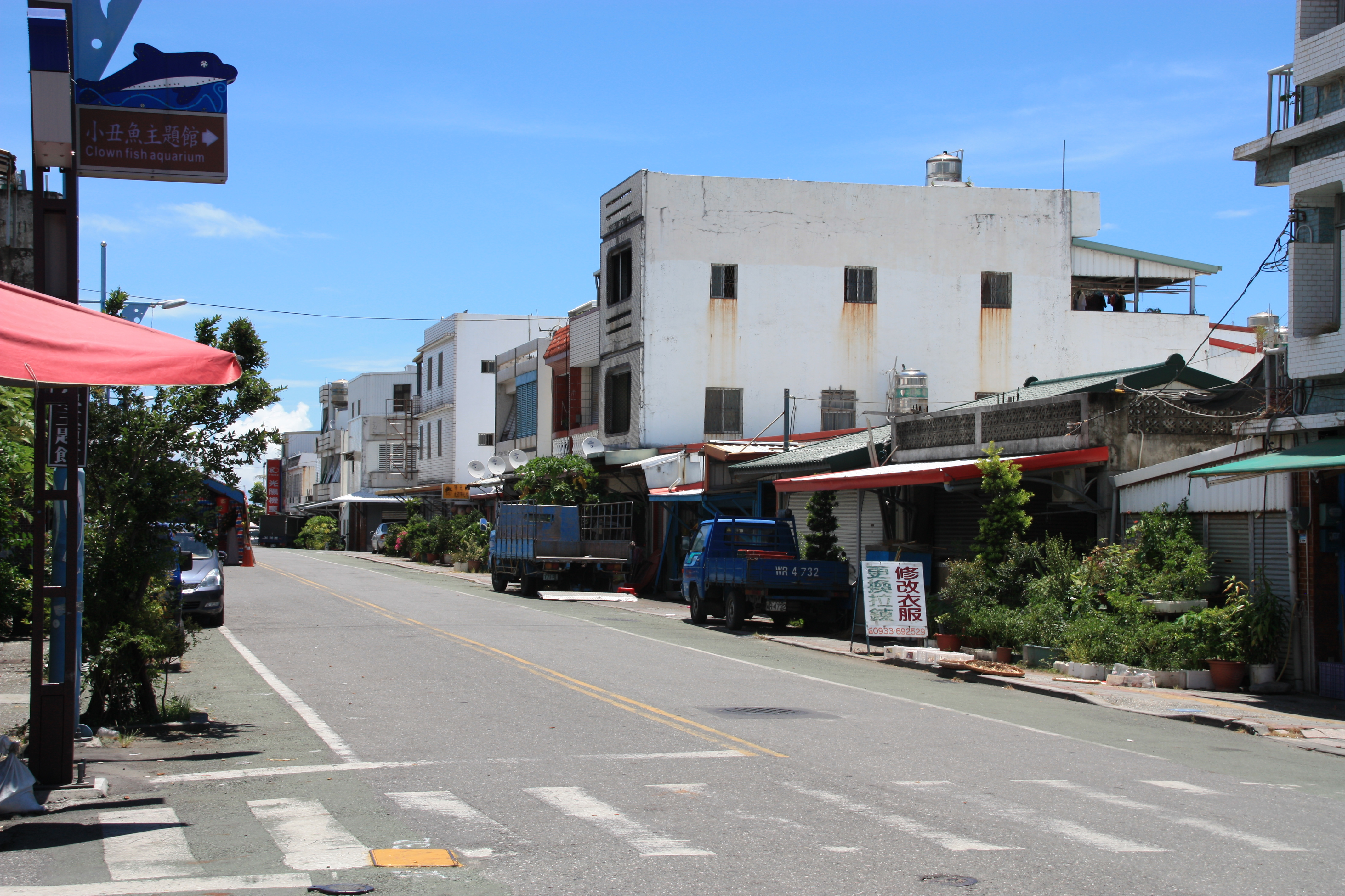 Taitung CountyChenggongZhōngShān East Rd-GuāngFù Rd Intersection